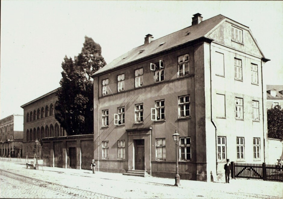 Søkortarkivet 's building in Holmens Kanal before it moved to Esplanaden in Copenhagen, Denmark